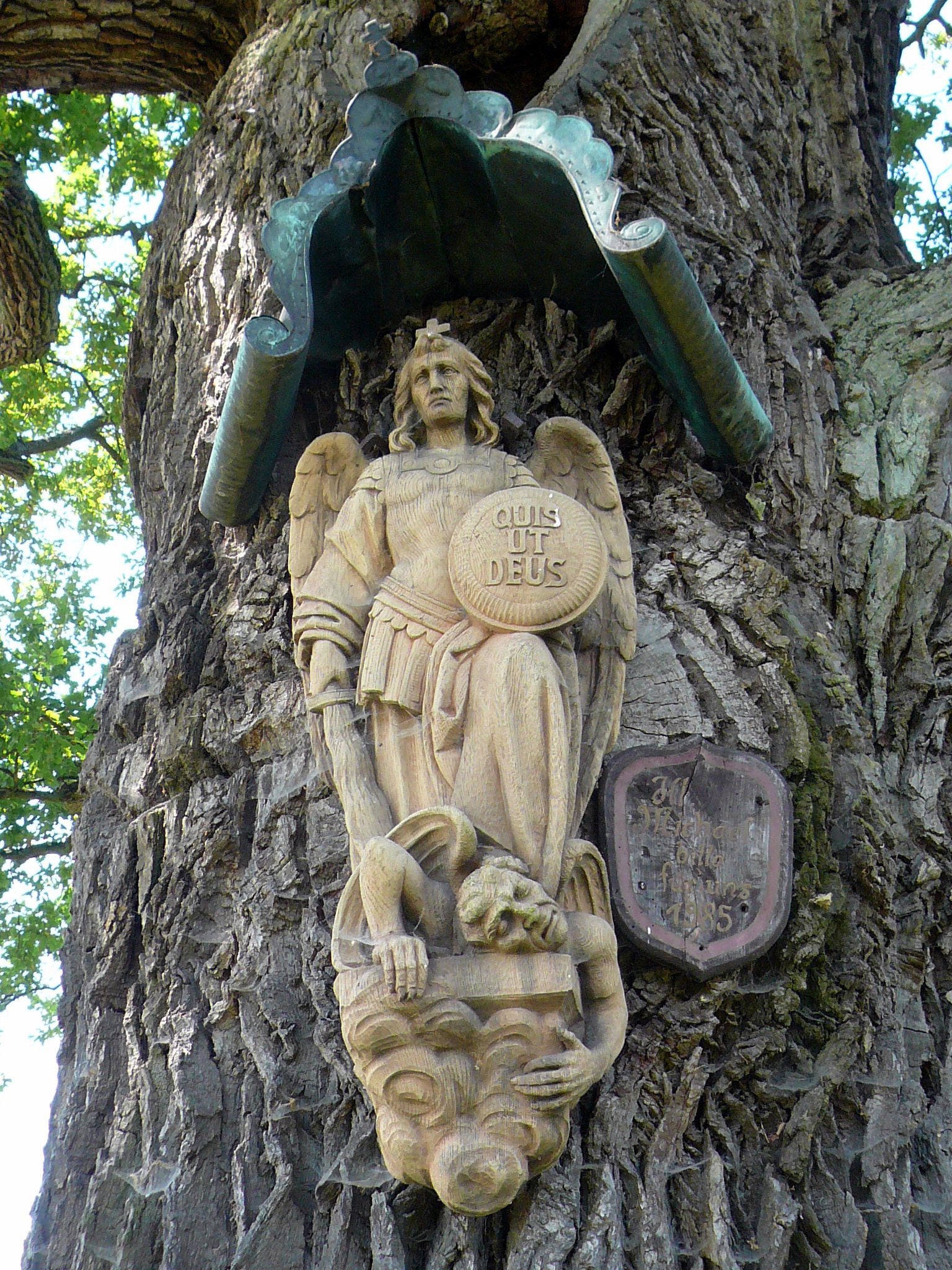 Michael's oak at Albertshausen, Franken. Has shield with the Latin phrase QUIS UT DEUS? "Who is like unto God?", which is a literal translation of the Hebrew name Mi-Ka-'El מי־כאל .